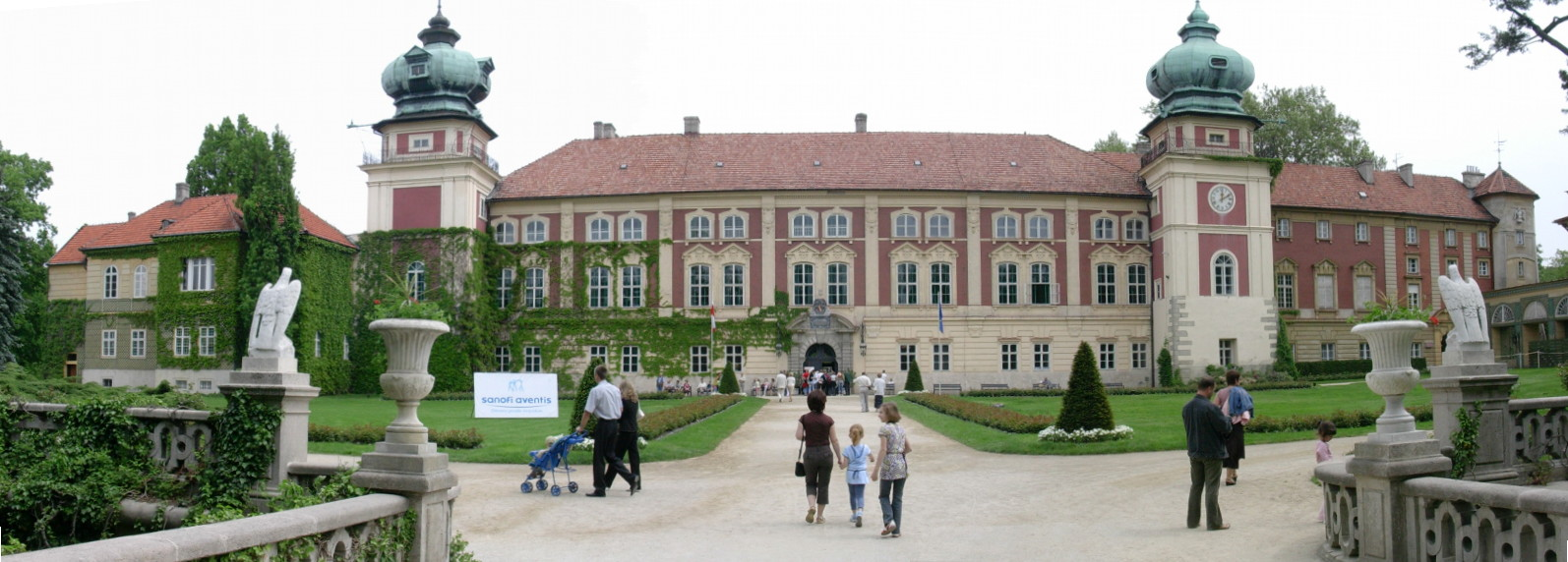 Castle in Łańcut, Poland